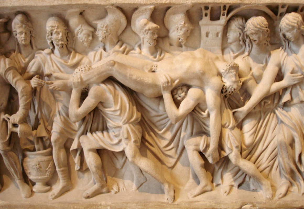 Scene from Book XXIV of the Iliad: Hector's corpse brought back to Troy (detail). Roman artwork (ca. 180–200 CE), relief from a sarcophagus, marble.